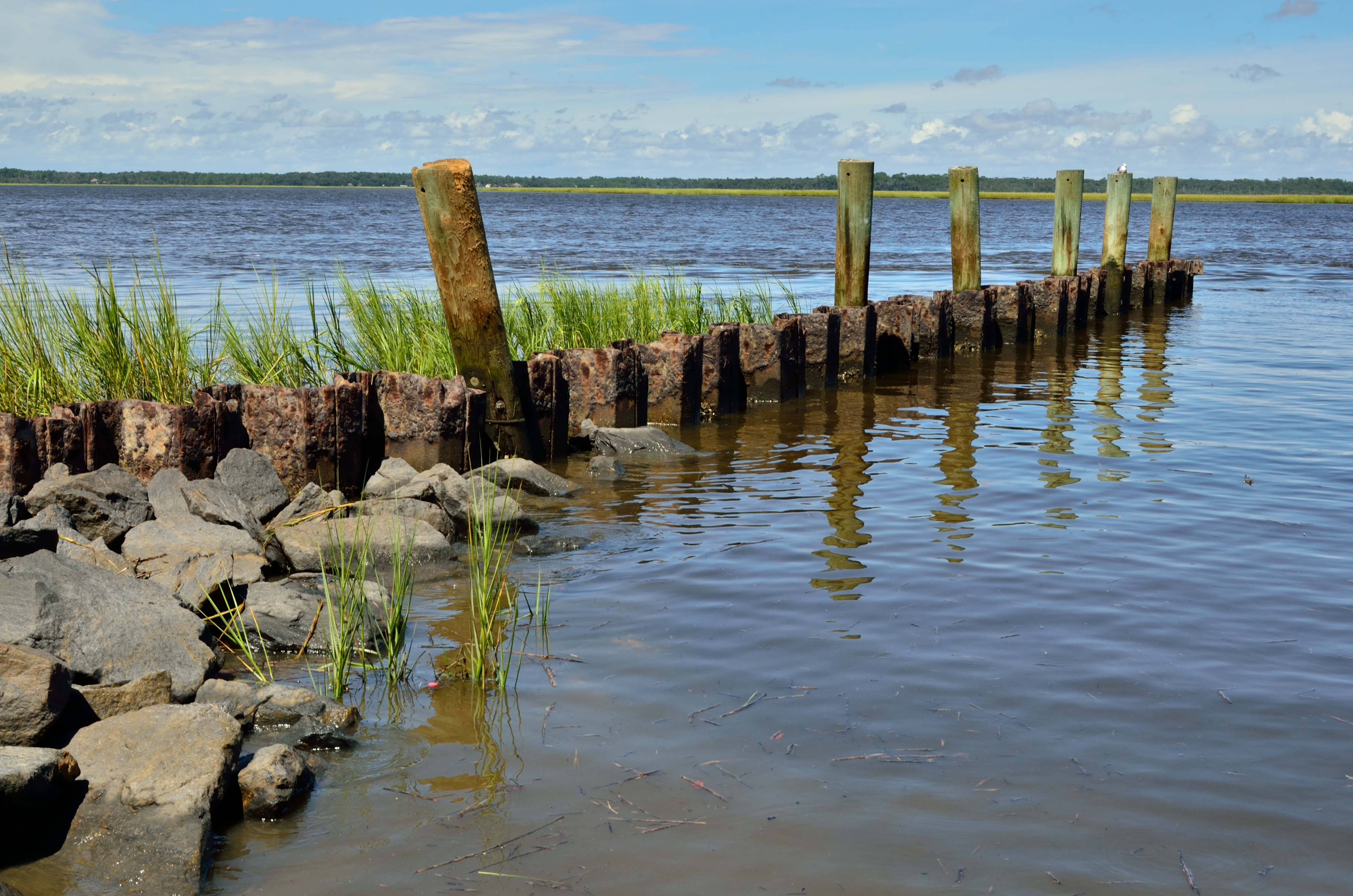 Crooked River Site (9CAM118)